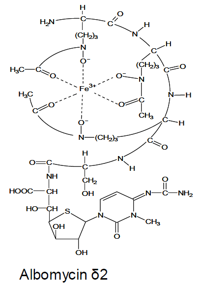 Structure of Albomycin δ2